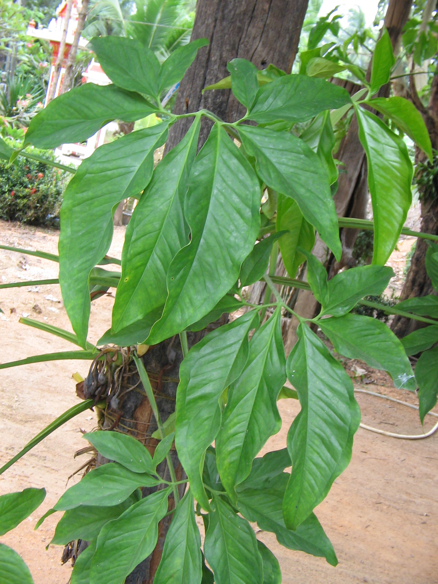 Syngonium podophyllum leaves